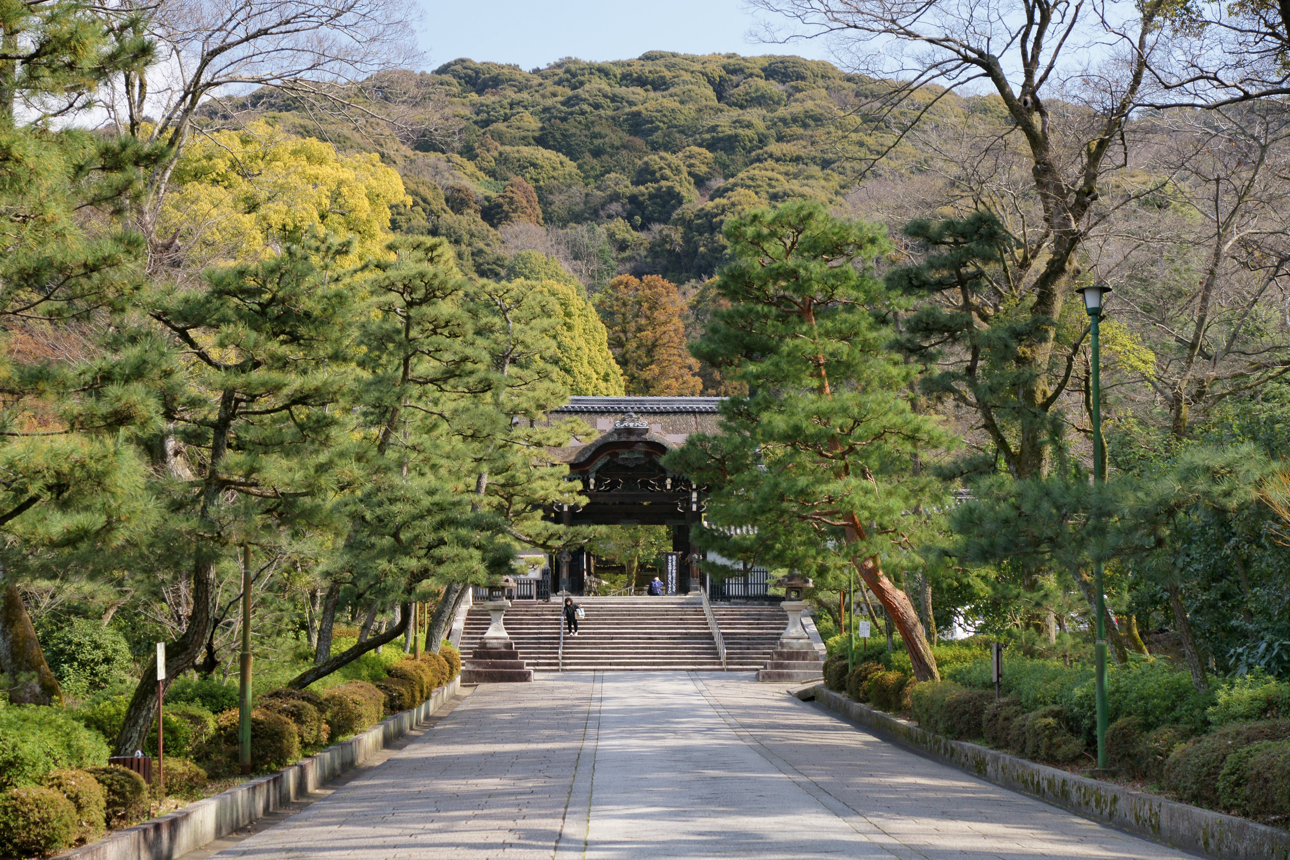 Ootani Sobyo in Higashiyama-ku, Kyoto, Kyoto Prefecture, Japan